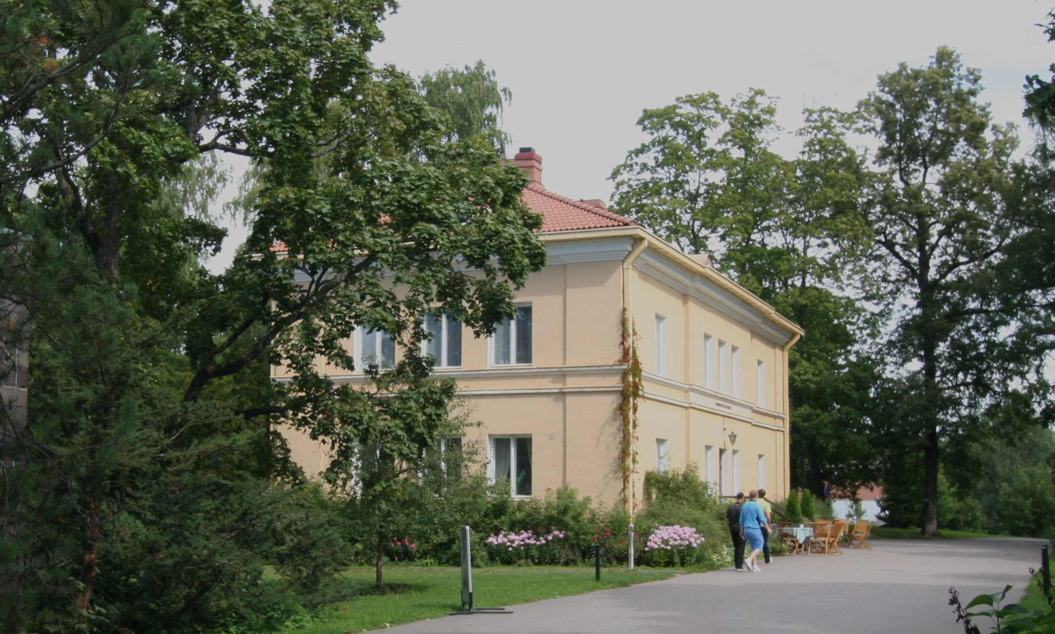 Hämeenkylä manor house main building